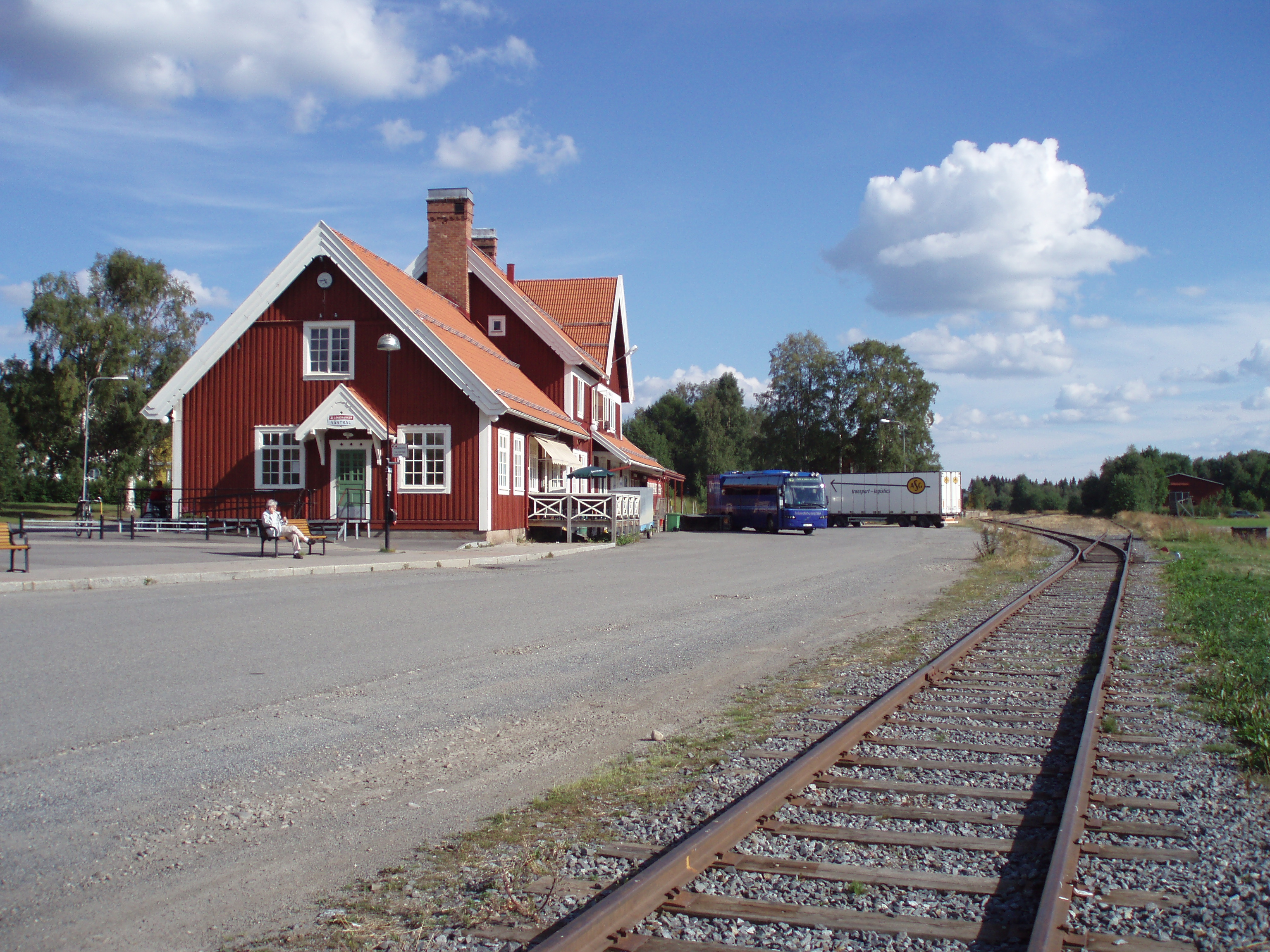 Strömsund, Sweden, the railwaystation. Photo taken in aug. 2006 by me - User:Cucumber